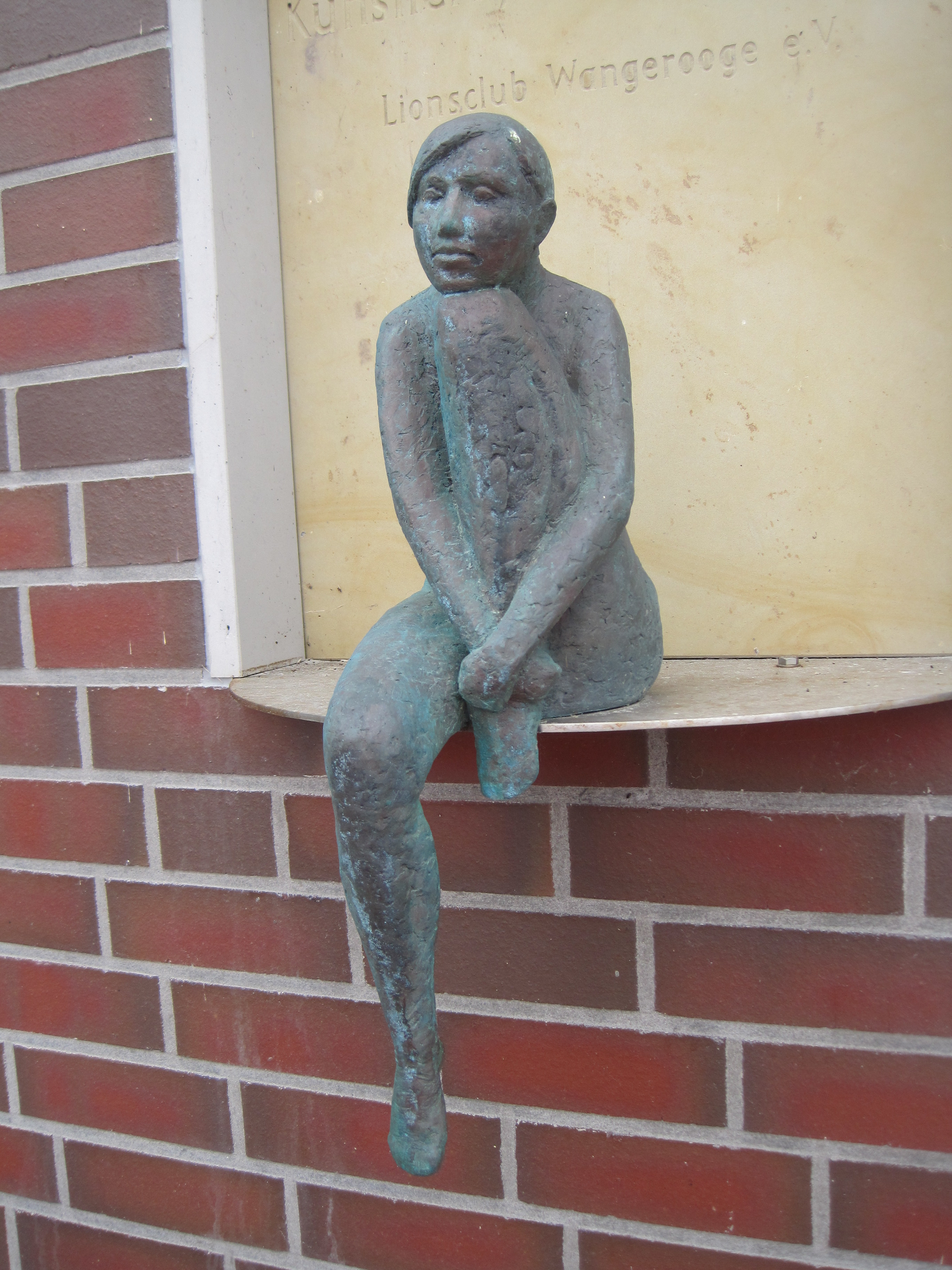 Sehnsucht by Susanne Kraißer, Wangerooge, Germany check usage